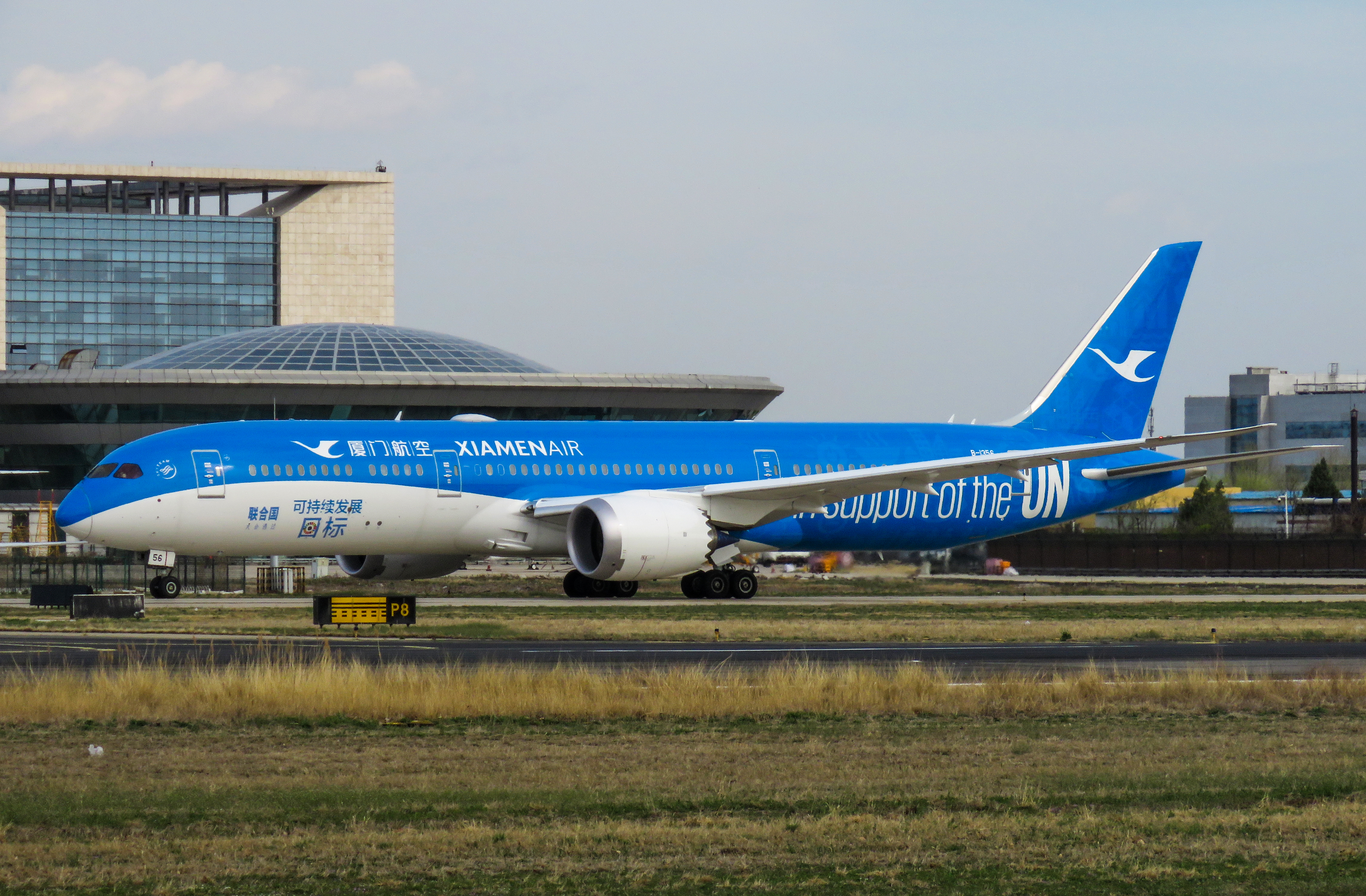 Egret 8142 to Shenzhen. The "imitation KLM" is back here.